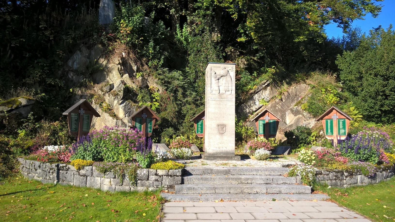 War memorial in Bad Wiessee